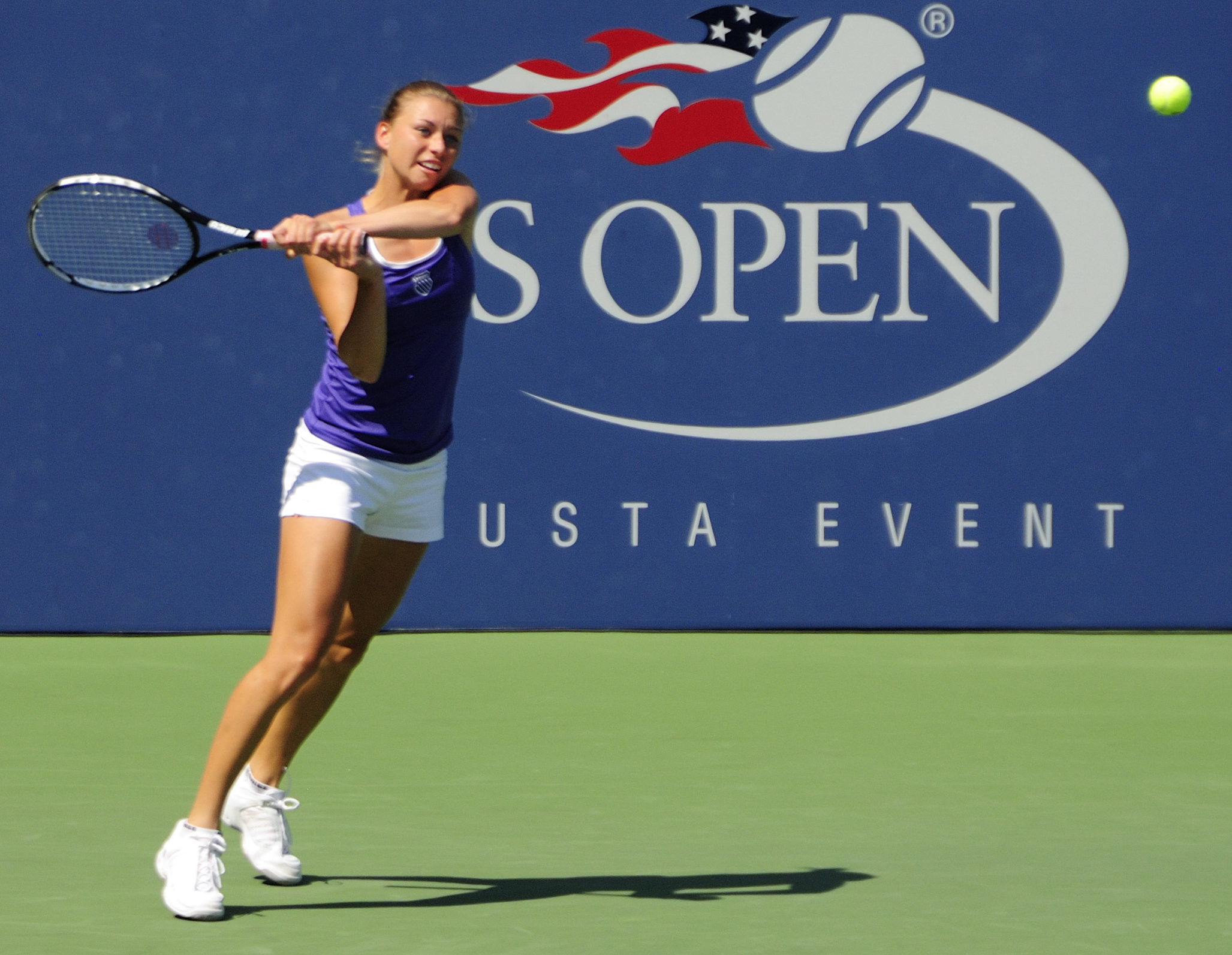 Vera Zvonareva at the 2009 US Open